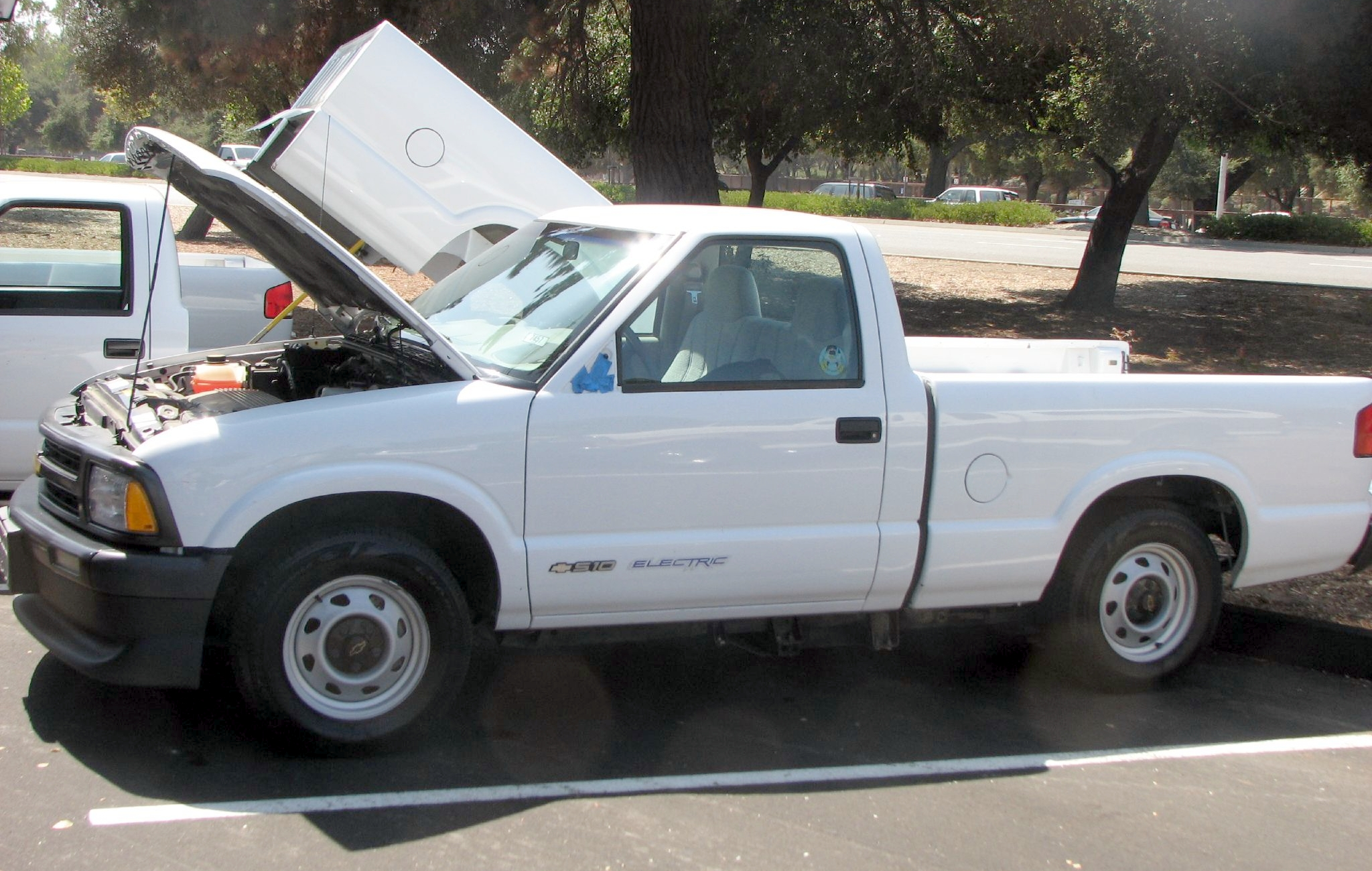 Electric Chevy S-10. Image cropped from original on Flickr.